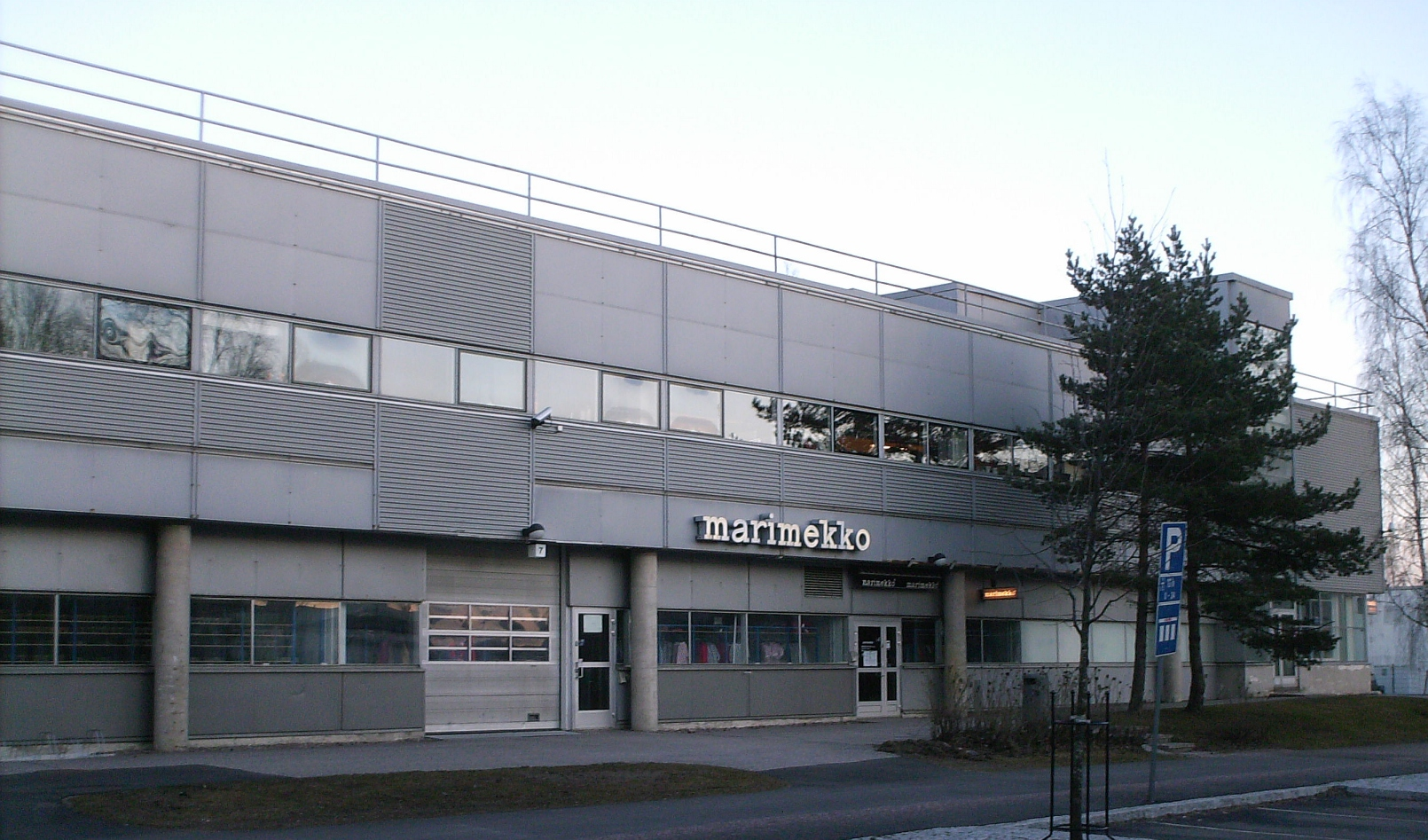 Photograph of the Marimekko factory building in Herttoniemi, Helsinki.